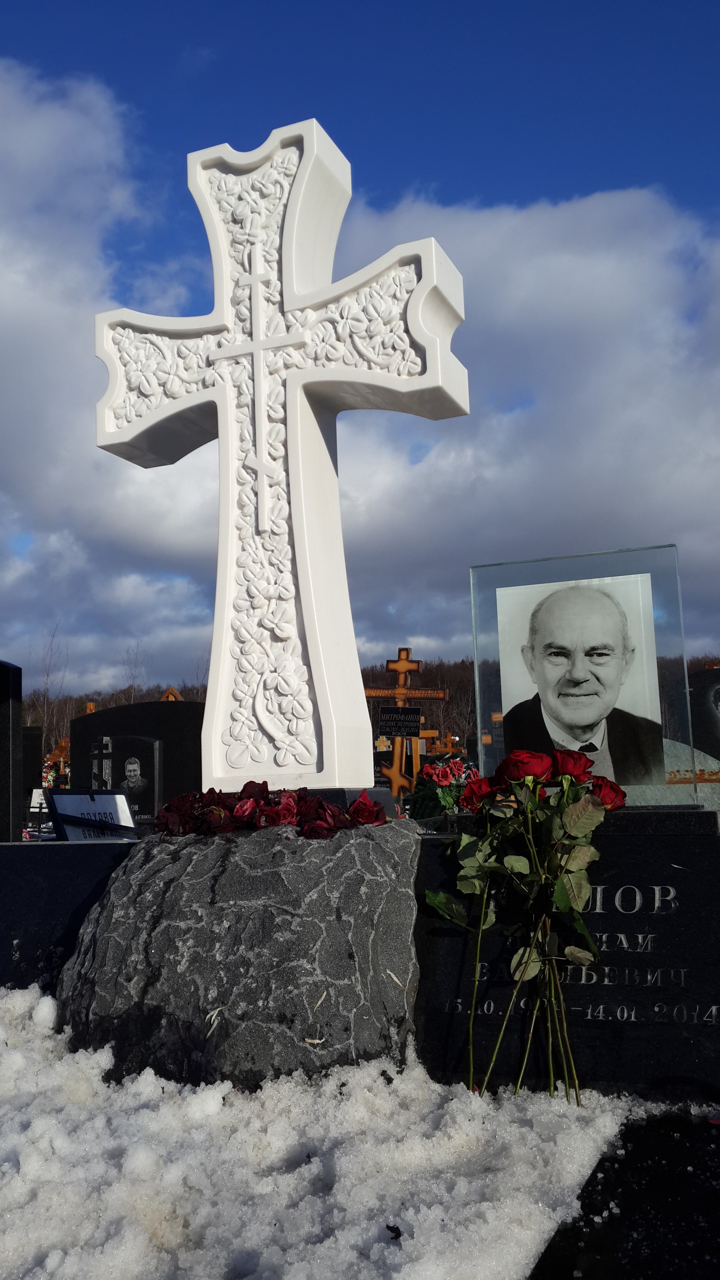 Moscow, Troekurovskoe cemetery, Karlov N.V.